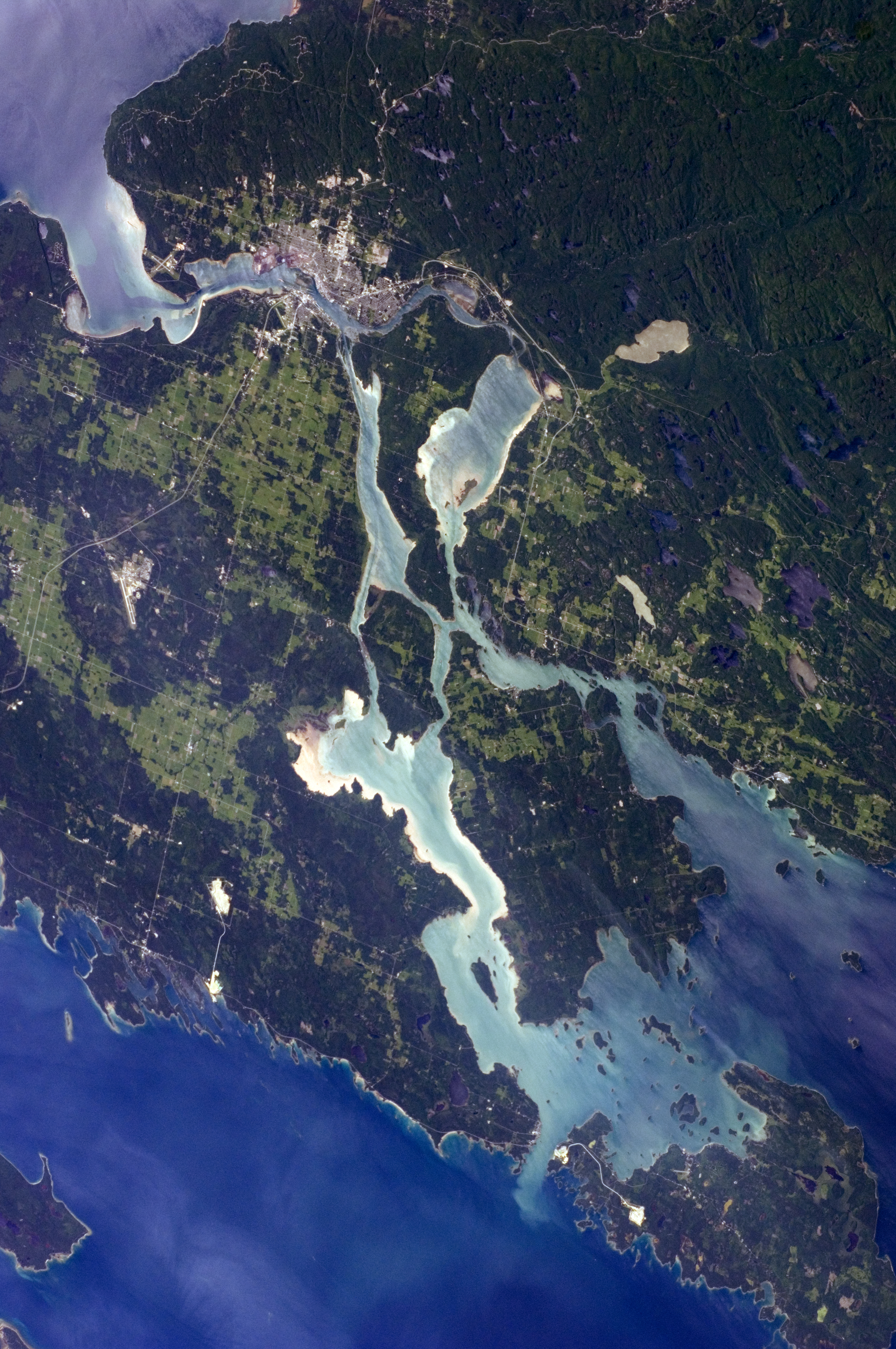 The twin cities of Sault Ste Marie are located across the St. Mary’s River, which forms part of the international boundary between Canada (Province of Ontario) and the United States (State of Michigan). This astronaut photograph highlights the two cities, as well as the lakes and islands that separate Lakes Huron and Superior, two of the Great Lakes of North America. Smaller lakes include Lake George to the west, and the large forested islands of St. Joseph and Drummond are visible at image upper left. The Sault Ste Marie urban areas (image lower left) have a distinctive gray to white colour, contrasting with the deep green of forested areas in Ontario and the lighter green of agricultural fields in Michigan. The water surfaces in the lakes and rivers vary from blue to blue-green to silver, likely the result of varying degrees of sediment and sunglint—light reflecting from the water surface back to the International Space Station.